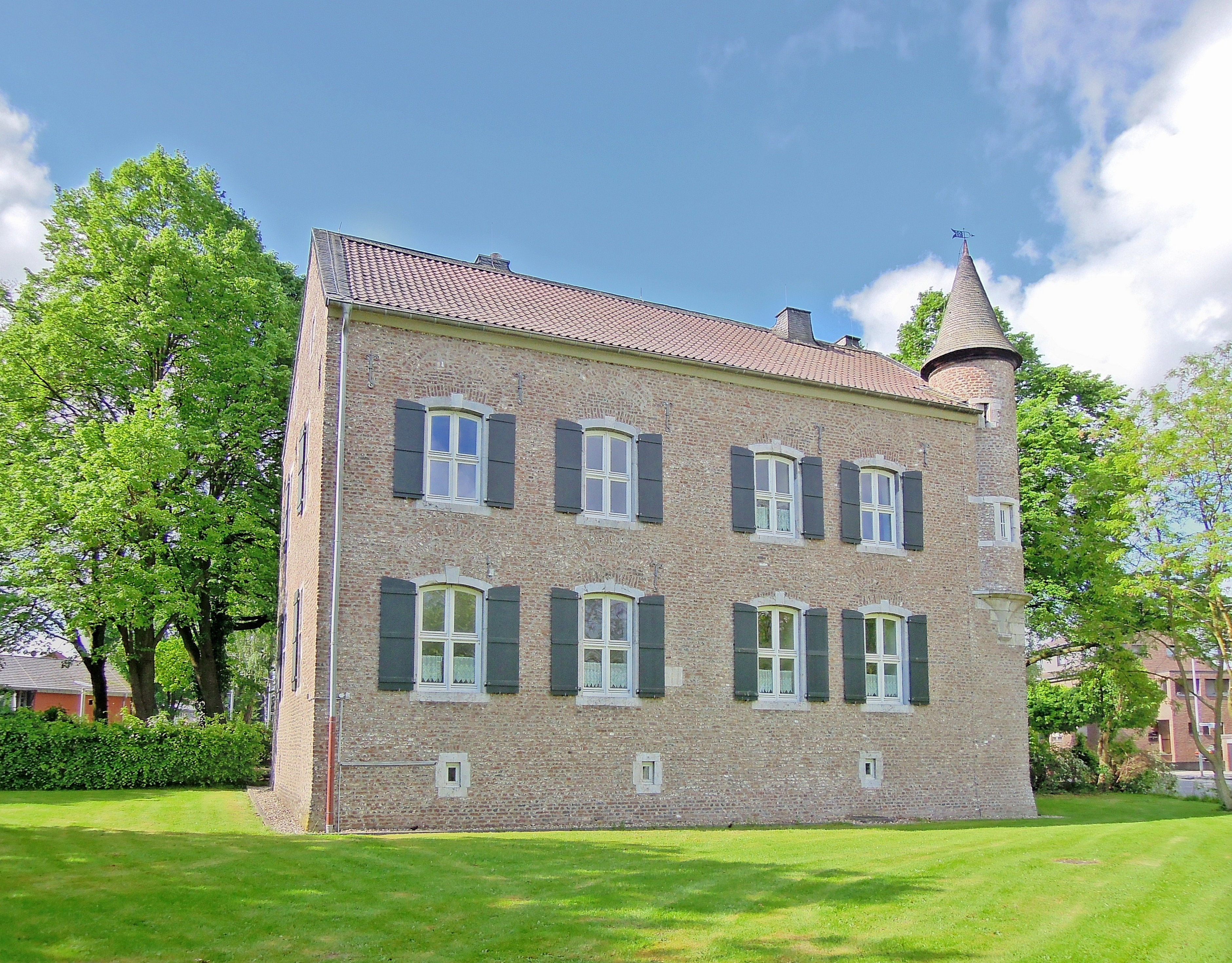 'Broicher Hof' in Dürwiß